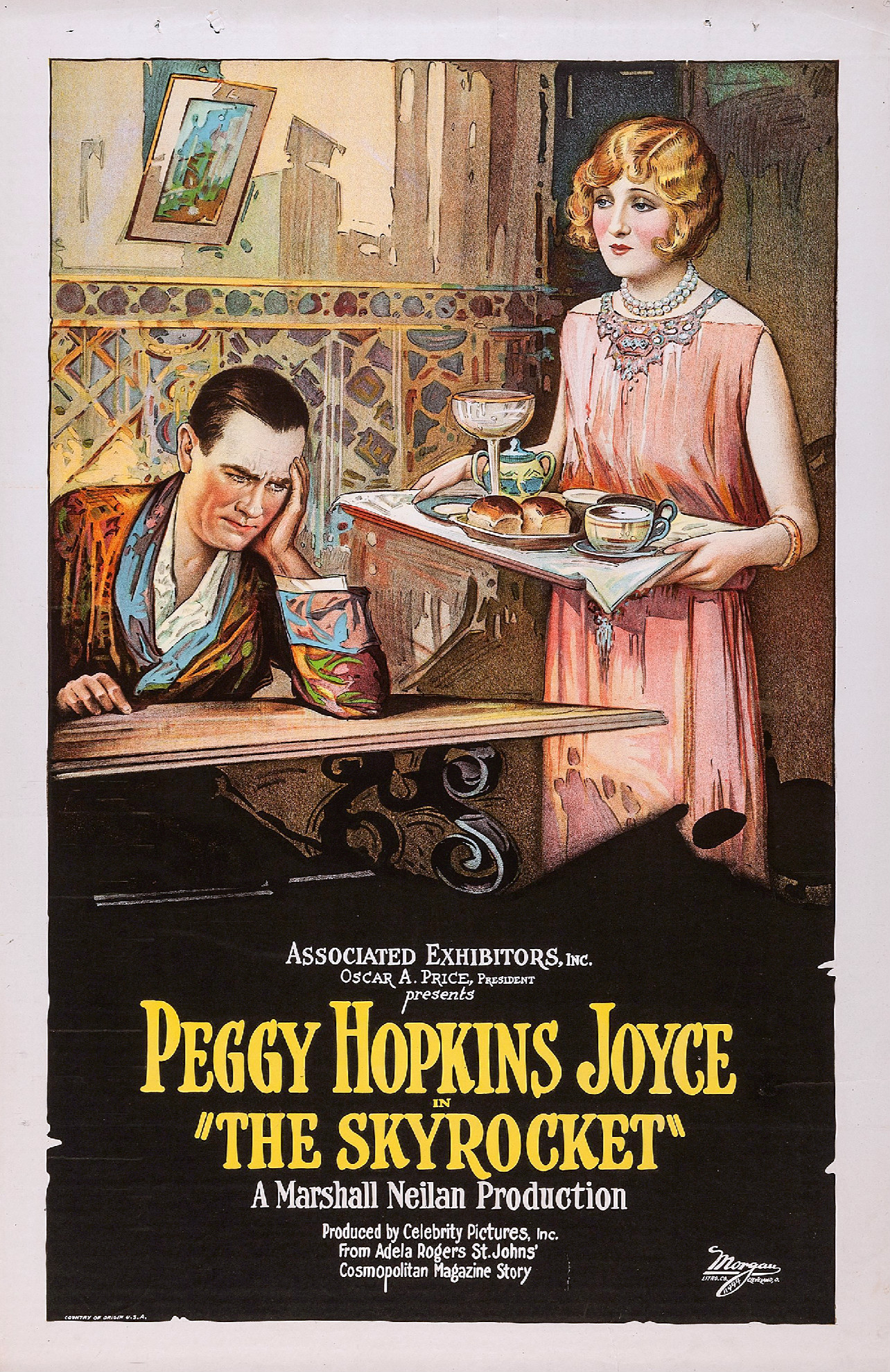 Poster for the 1926 film The Skyrocket!. There are no copyright marks on the poster. At bottom left is Country of origin USA/ At bottom right is the logo of the Morgan Litho Company, Cleveland-they printed the poster.